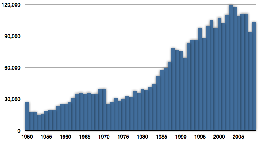 Fisheries recorded capture of swordfish (Xiphias gladius) from 1950 to 2009. Data source FAO fisheries